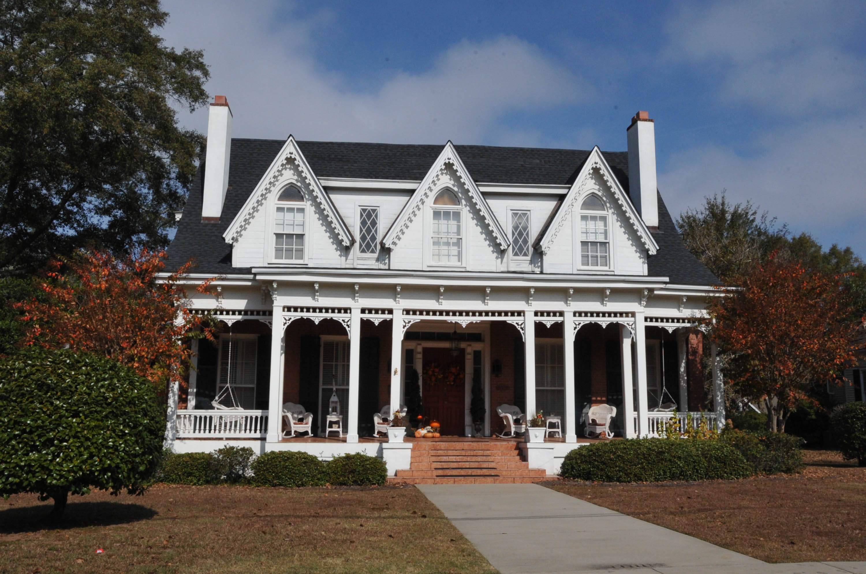 OLD MURPHREE HOUSE; 1870’S LATE GOTHIC REVIVAL. A LOCAL RESIDENT STATED THAT THIS IS THE OLDEST HOUSE IN THE DISTRICT